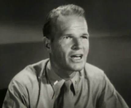 Louis Jean Heydt in Gung Ho! - cropped screenshot